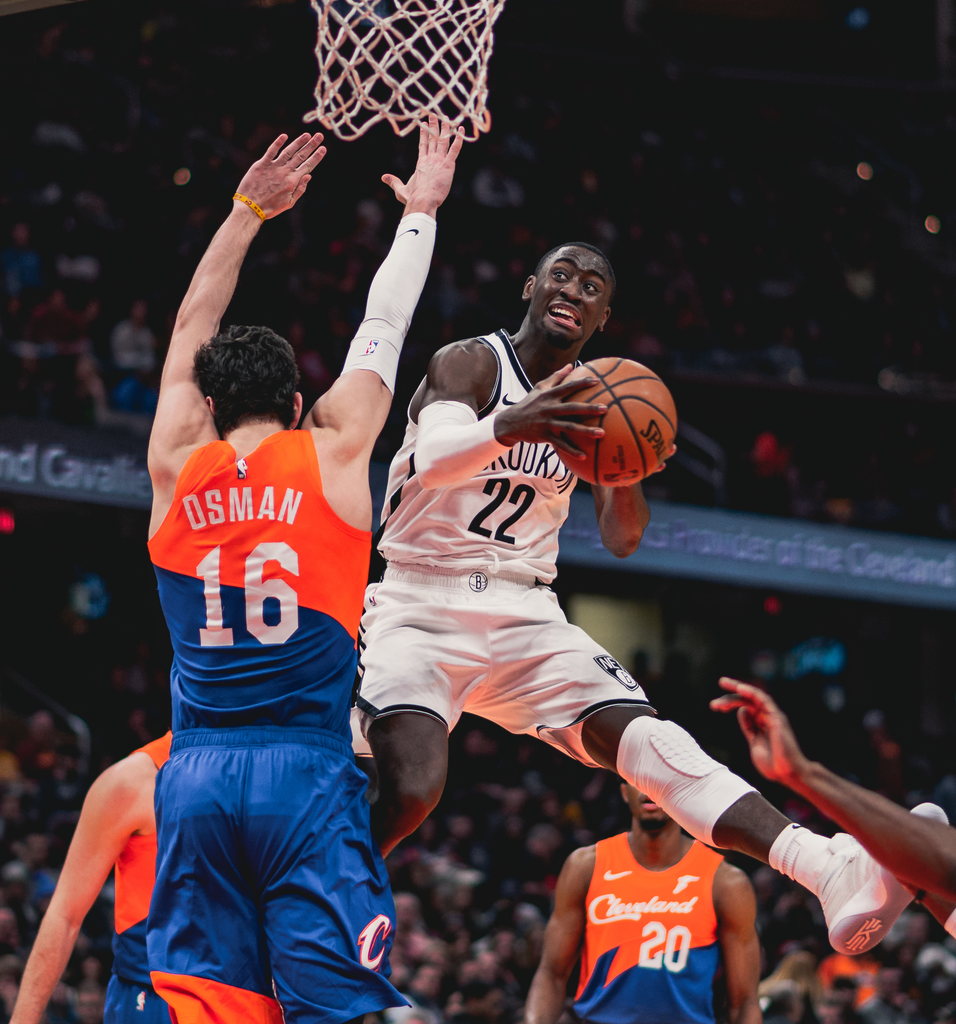 Cleveland Cavaliers vs. Brooklyn Nets